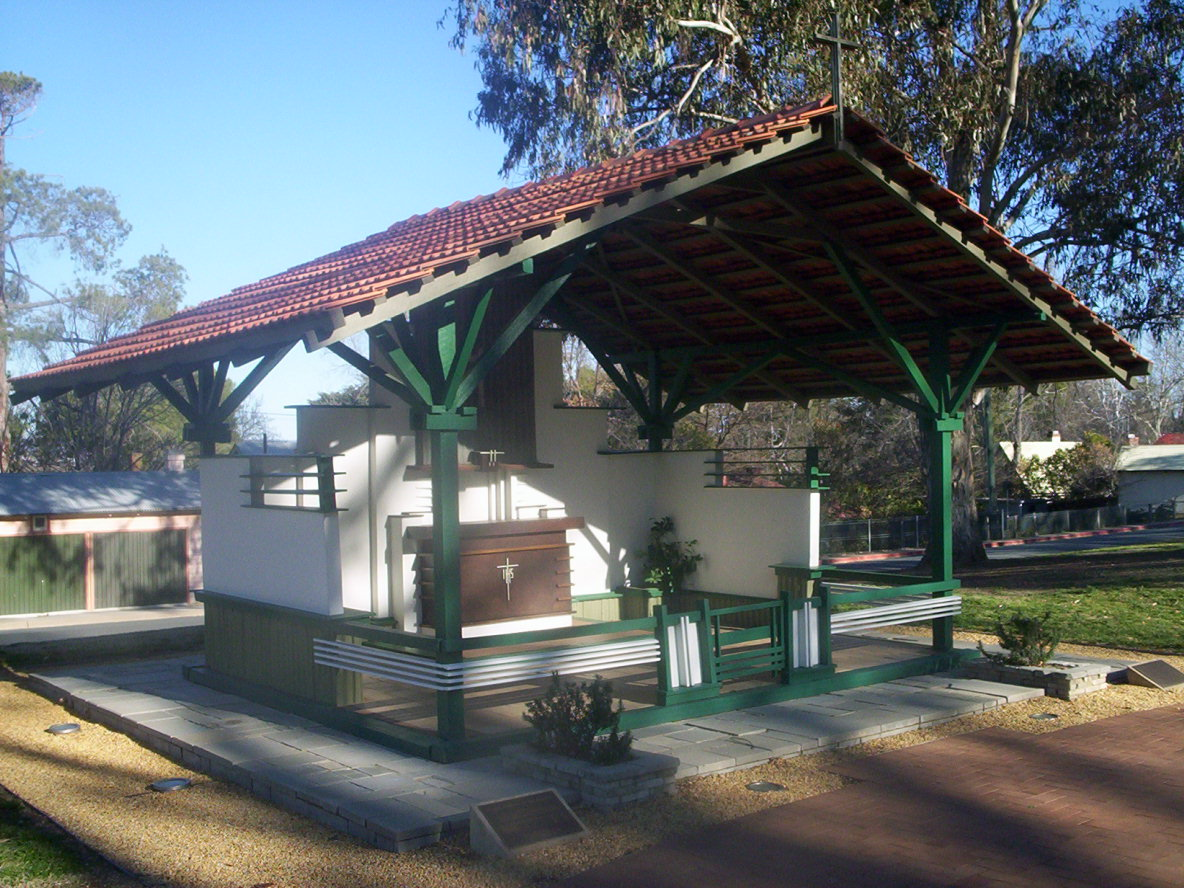 Changi Chapel at Duntroon dedicated to Australian POWs.